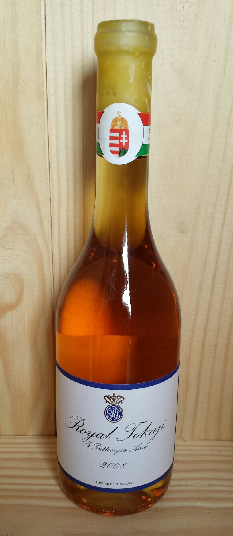 Royal Tokaji 5 Puttonyos Aszu Blue Label Tokay, Royal Tokaji Wine Company 50cl